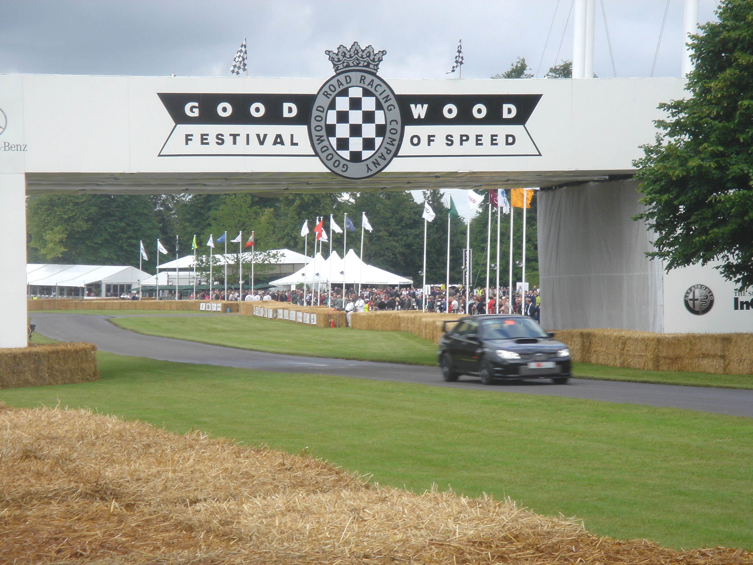 pedestrian bridge crossing race course, Goodwood Festival of Speed 2007